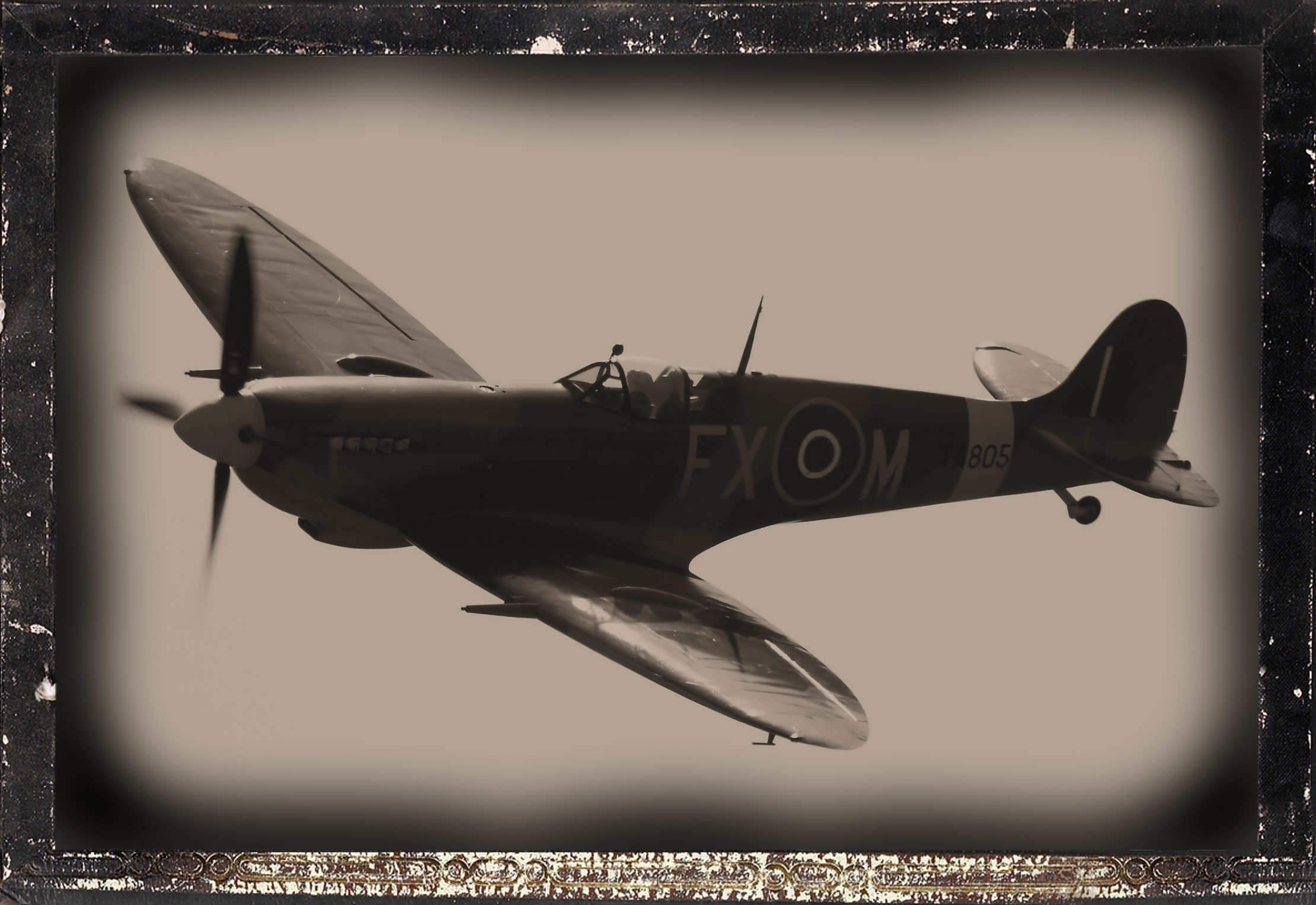 Not entirely sure if this works, but something a bit different to my normal stuff lol :-)